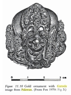 A photo of a gold Garuda ornament found in Palawan,Philippines.